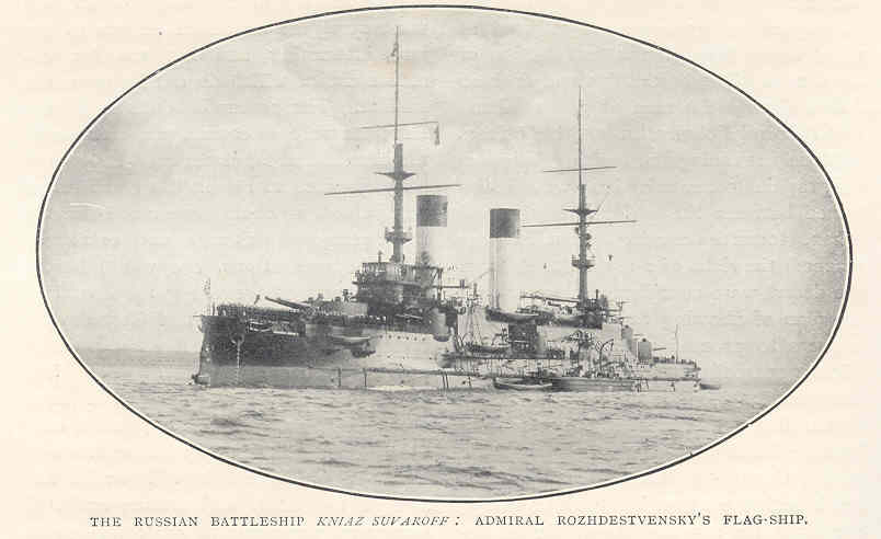 Battleship Knyaz Suvorov